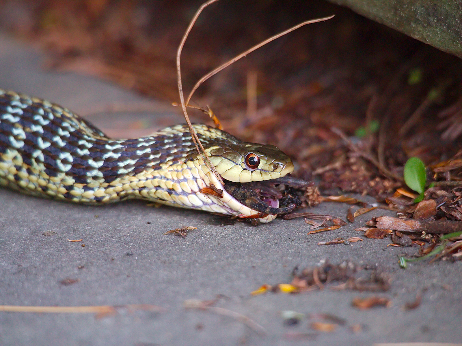 Common/Eastern Garter Snake (Thamnophis sirtalis) swallowing a American toad (Bufo americanus).